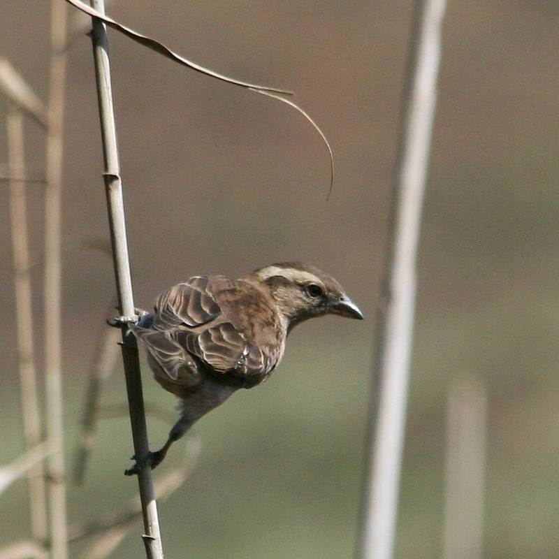 Yellow-throated Petronia (Gymnoris superciliaris, syn. Petronia superciliaris). Location: Cedara Farm, Pietermaritzburg, South Africa.